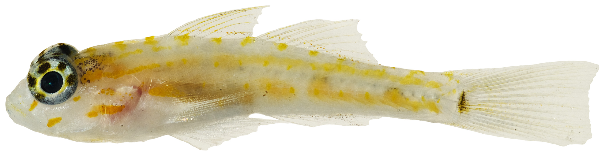 Coryphopterus eidolon Böhlke & Robins, 1960—pallid goby, 18.3 mm SL. Photo by JT Williams.